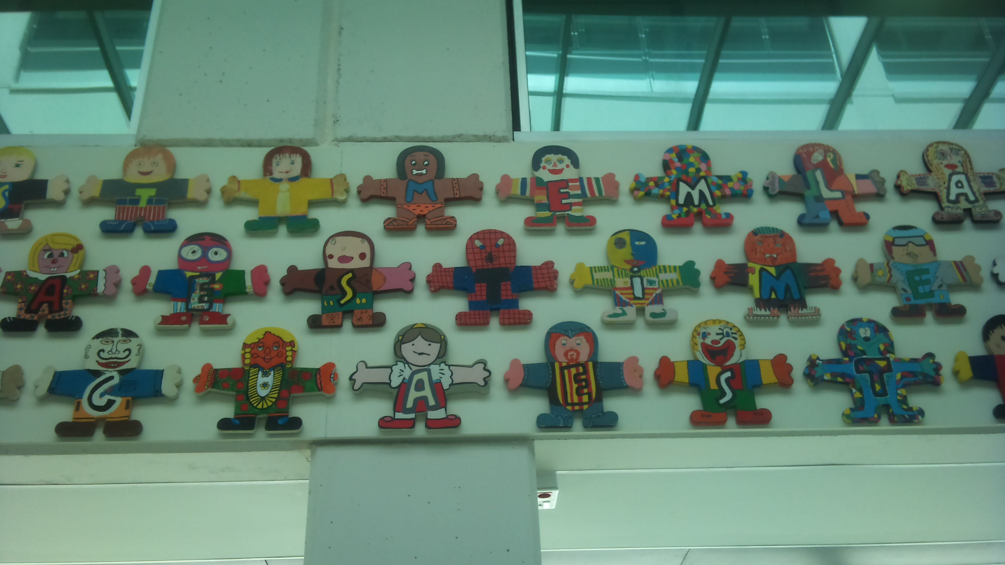 Partial view of the mural done by Xavier Mariscal and the students of the schools in Valencian, in the "Meeting of Schools in Valencian (language)" of the year 1995. Its actual location is the Teacher's Faculty of the University of València.